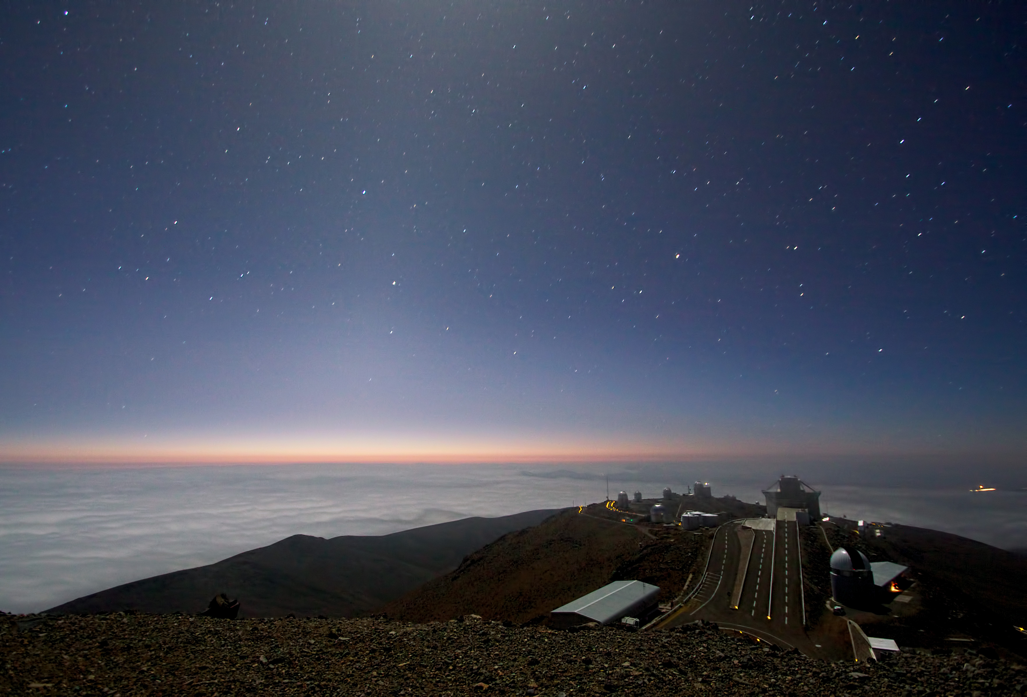 "What may look like a futuristic city out of a science fiction story, floating high above the clouds, is ESO’s longest-serving observatory, La Silla. This photograph was taken by astronomer Alan Fitzsimmons while standing near the ESO 3.6-metre telescope just after sunset. The Moon is located just outside the frame of this picture, bathing the observatory in an eerie light that is reflected off the clouds below. The very faint band of glowing golden light just above the clouds still illuminated by the sunset is the zodiacal light. It is caused by sunlight diffused by dust particles between the Sun and the planets. This can only be seen just after sunset or just before sunrise, at particular times of year, from very good sites. Several telescopes can be seen in this photograph. For example, the large angular structure at the end of the road is the New Technology Telescope (NTT). True to its name, when completed in 1989 the telescope included a number of revolutionary features including being the first to use full active optics as well as a revolutionary octagonal enclosure. Many of the NTT’s features went on to be incorporated into ESO’s Very Large Telescope. The dome in the foreground, just to the right is the Swiss 1.2-metre Leonhard Euler Telescope named in honour of the famous Swiss mathematician Leonhard Euler (1707–83). Alan submitted this photograph to the Your ESO Pictures Flickr group. The Flickr group is regularly reviewed and the best photos are selected to be featured in our popular Picture of the Week series, or in our gallery."[1]